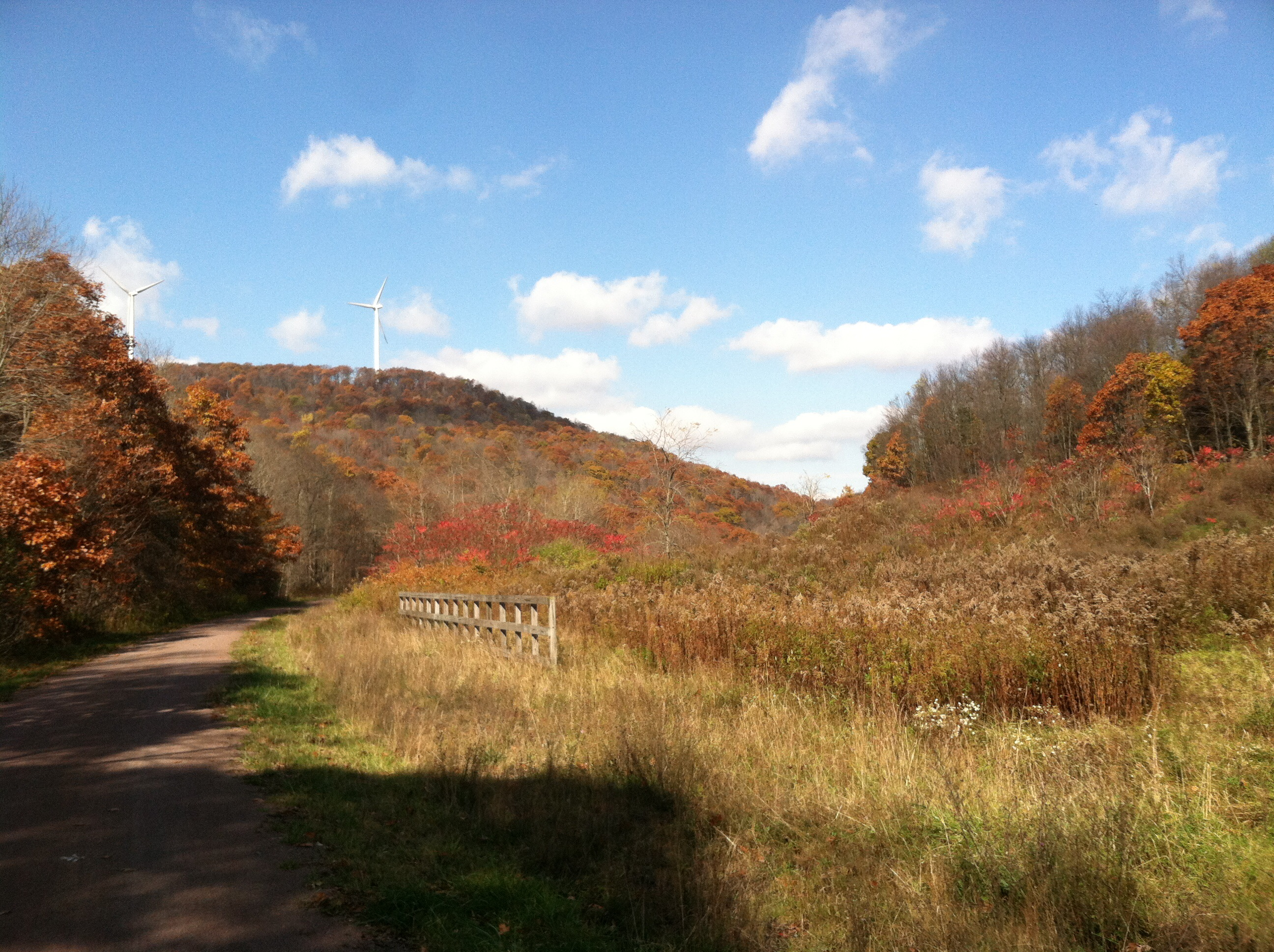 Taken in late October near the Mason Dixon Line